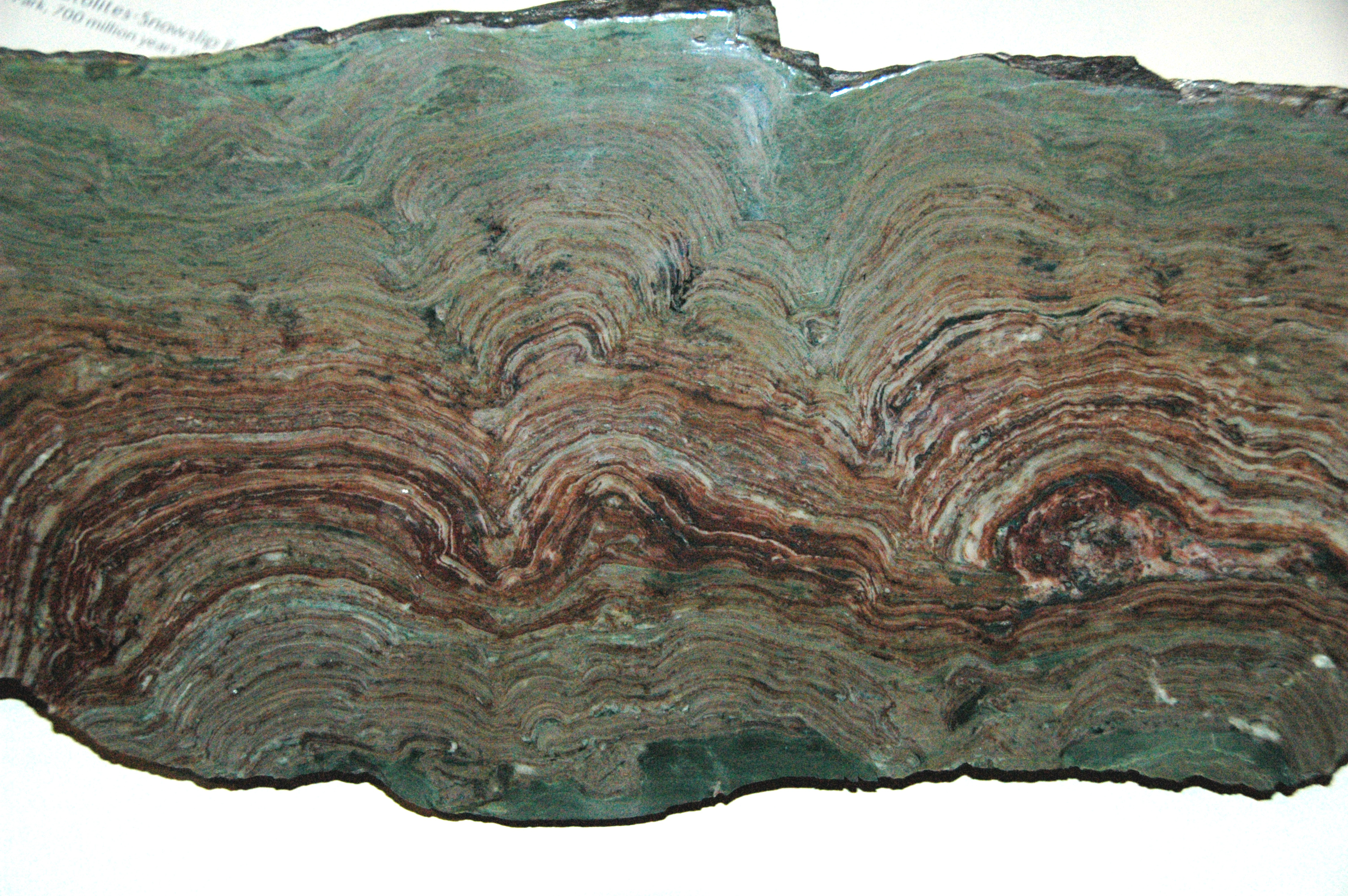 Stromatolites (cut & polished slice) from the Precambrian of Montana (public display, Museum of the Rockies, Bozeman, Montana, USA). Stratigraphy: Snowslip Formation, Belt Supergroup, Mesoproterozoic, ~1.44 Ga. Locality: Glacier National Park, northwestern Montana, USA. Stromatolites are large, layered structures built up by mats of cyanobacteria. Stromatolites vary in appearance, ranging from slightly wrinkled horizontal laminations in sedimentary rocks to low mounds to prominent mounds to columnar structures and other forms. Stromatolites are most common in the Proterozoic fossil record. They are scarce today, but famous modern examples occur at Shark Bay, Western Australia.